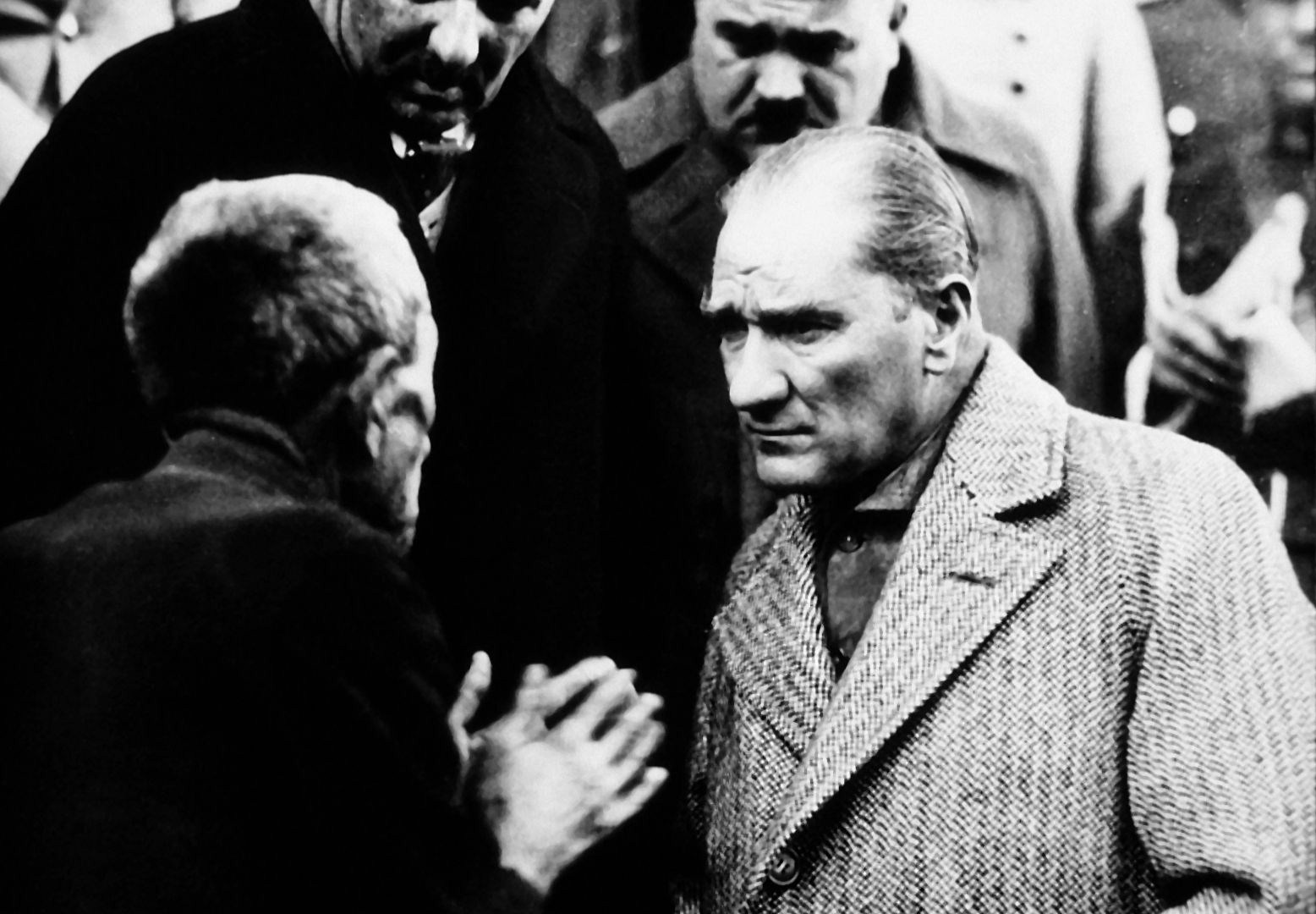 Mustafa Kemal Atatürk during one of his national tours. Kemal Atatürk (or alternatively written as Kamâl Atatürk, Mustafa Kemal Pasha until 1934, commonly referred to as Mustafa Kemal Atatürk; 1881 – 10 November 1938) was a Turkish field marshal, revolutionary statesman, author, and the founding father of the Republic of Turkey, serving as its first President from 1923 until his death in 1938. He undertook sweeping progressive reforms, which modernized Turkey into a secular, industrial nation. Ideologically a secularist and nationalist, his policies and theories became known as Kemalism. Due to his military and political accomplishments, Atatürk is regarded as one of the most important political leaders of the 20th century.